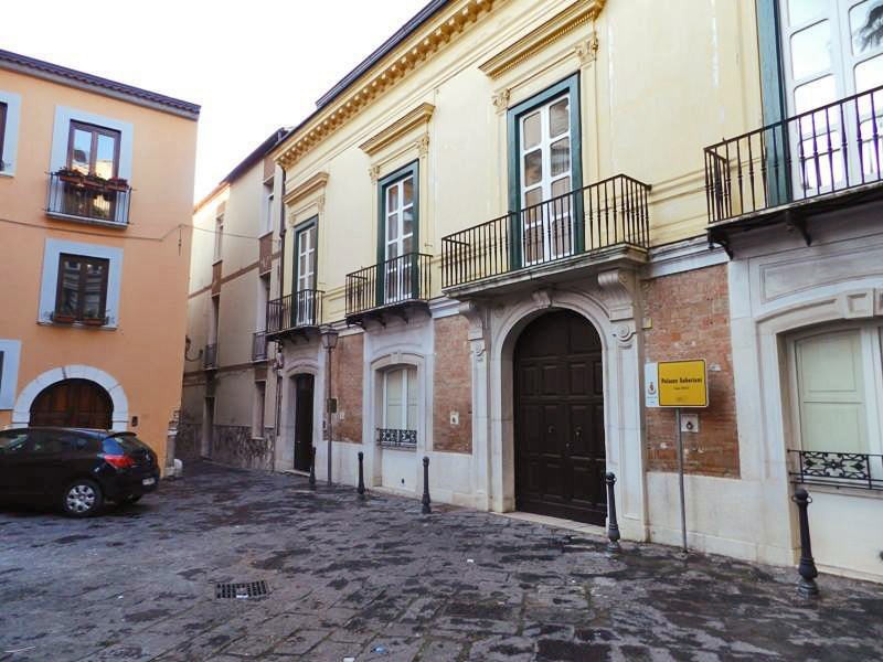 Front of Palazzo Sabariani, Benevento, Italy